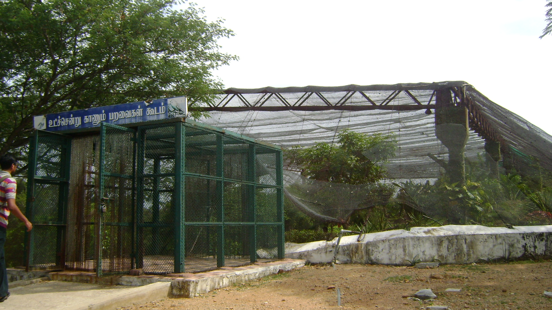 Entrance of Aviary at Vandalur Zoo, taken on 18 August 2012